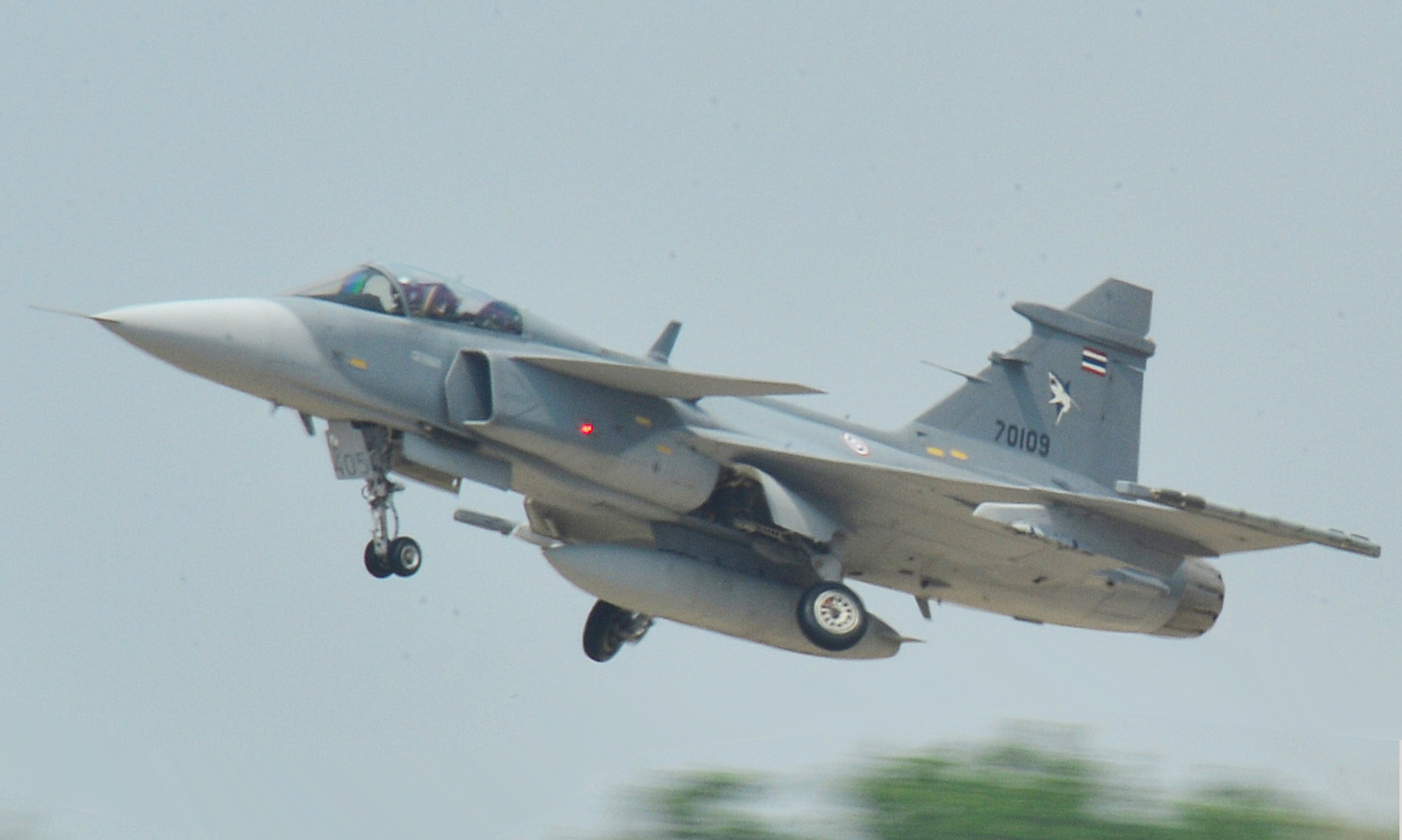 A Royal Thai Air Force JAS 39 Gripen takes off during Exercise Cope Tiger 16, on Korat Royal Thai Air Force Base, Thailand, March 7, 2016. Exercise Cope Tiger 16 includes over 1,200 personnel from three countries and continues the growth of strong, interoperable and beneficial relationships within the Asia-Pacific Region, while demonstrating U.S. capability to project forces strategically in a combined, joint environment. (U.S. Air Force Photo by Tech Sgt. Aaron Oelrich/Released)